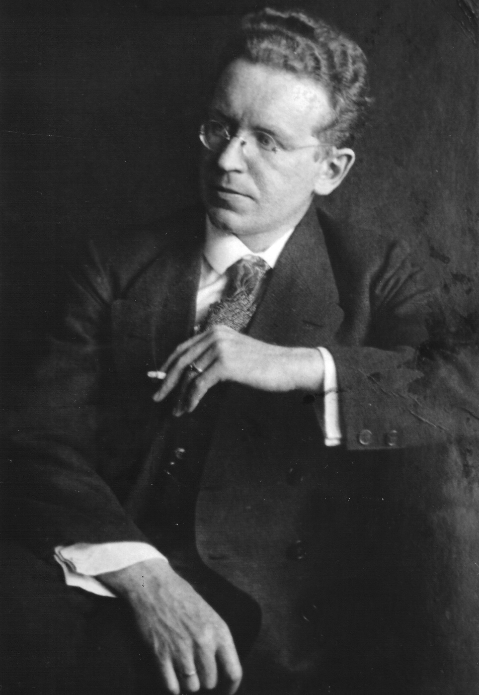 Photograph of Oskar Hagen, founder of the Händel Festspiele Göttingen